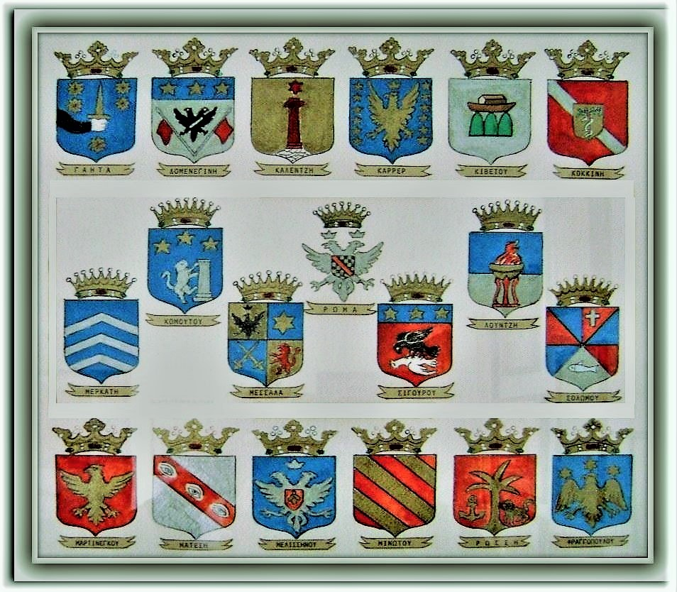 Arms of prominent Zakynthian familieis